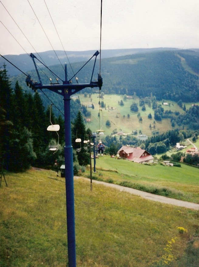 Former chairlift Velká Úpa – Portášovy boudy, station Portášovy boudy, Velká Úpa, Kronoše